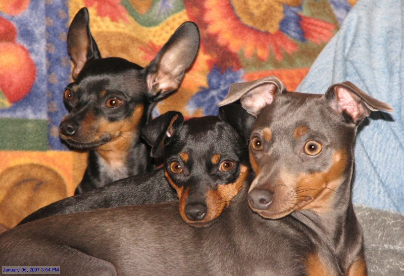 Three miniature pinschers cuddled on the couch